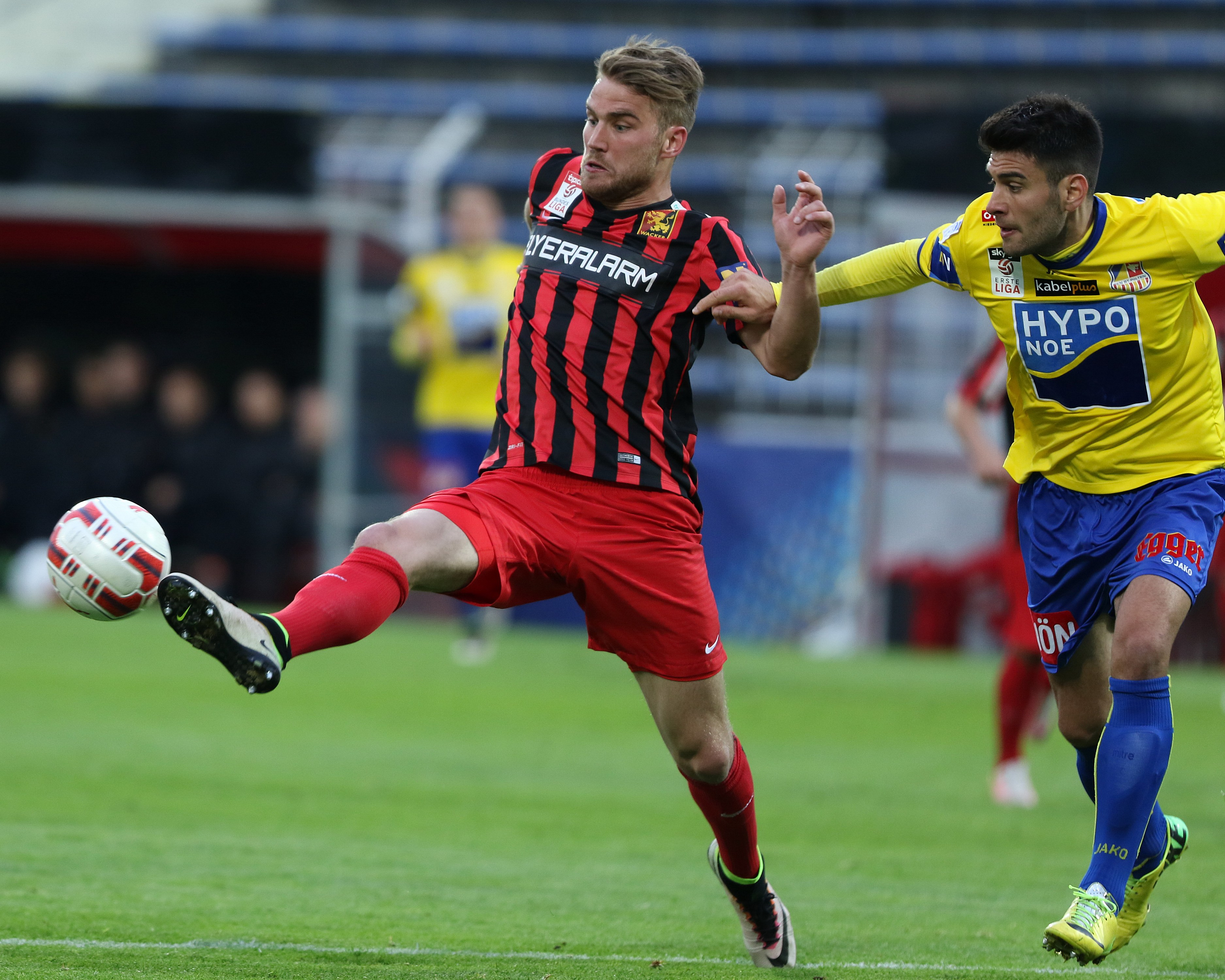 Semifinal of the 2015–16 Austrian Cup – FC Admira Wacker Mödling (red-black shirts) vs. SKN St. Pölten (yellow shirts) 2-1 (0-0) on 2016-04-19 in Bundesstadion Sudstadt – The photo shows Lukas Grozurek (left) and Danijel Petrović (right).